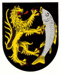 Coat of arms of Heltersberg